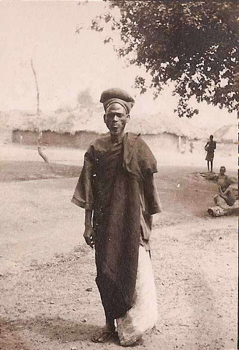 Photo prise par Maurice Lescanne en 1932